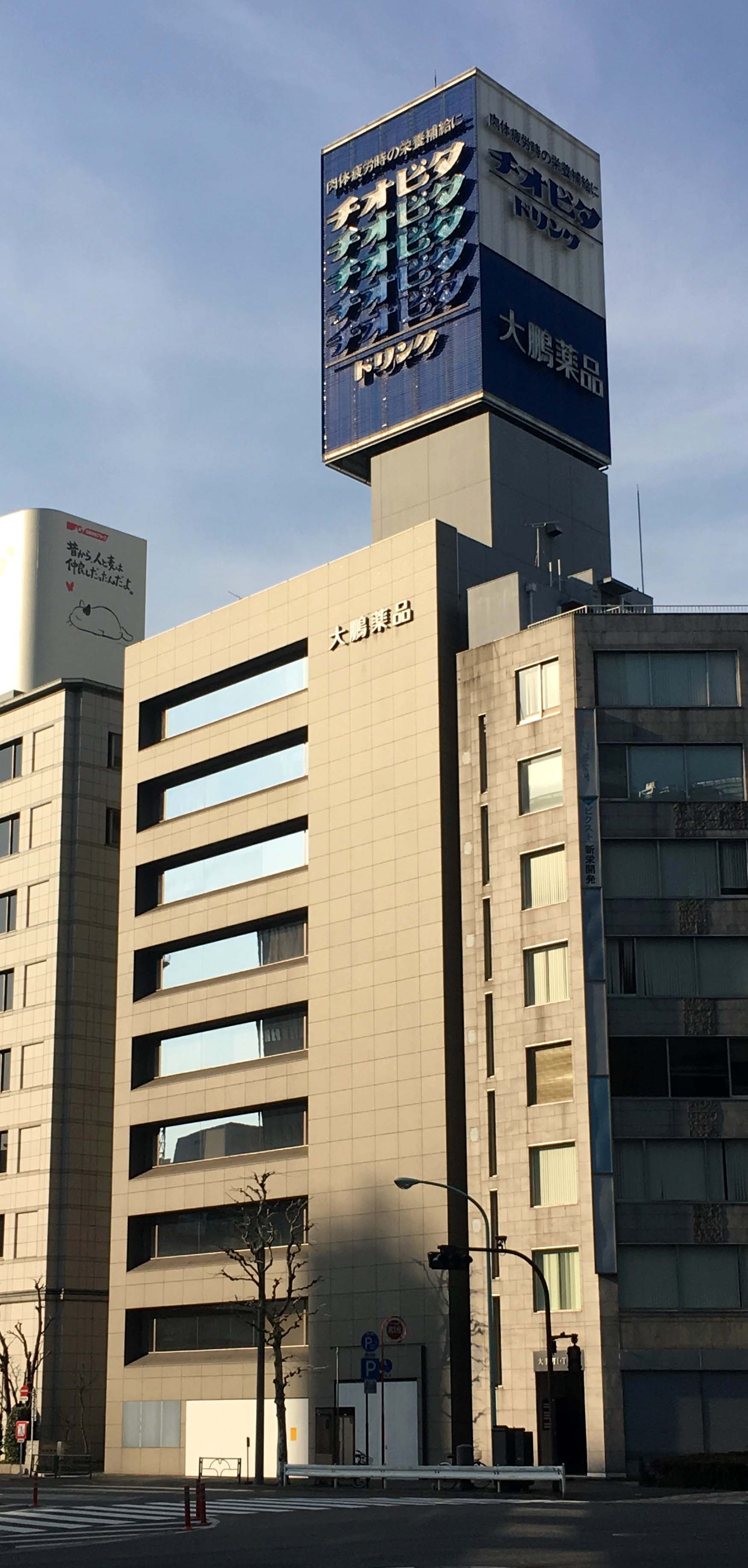 Taiho Pharmaceutical headquarters (Tokyo, Japan)